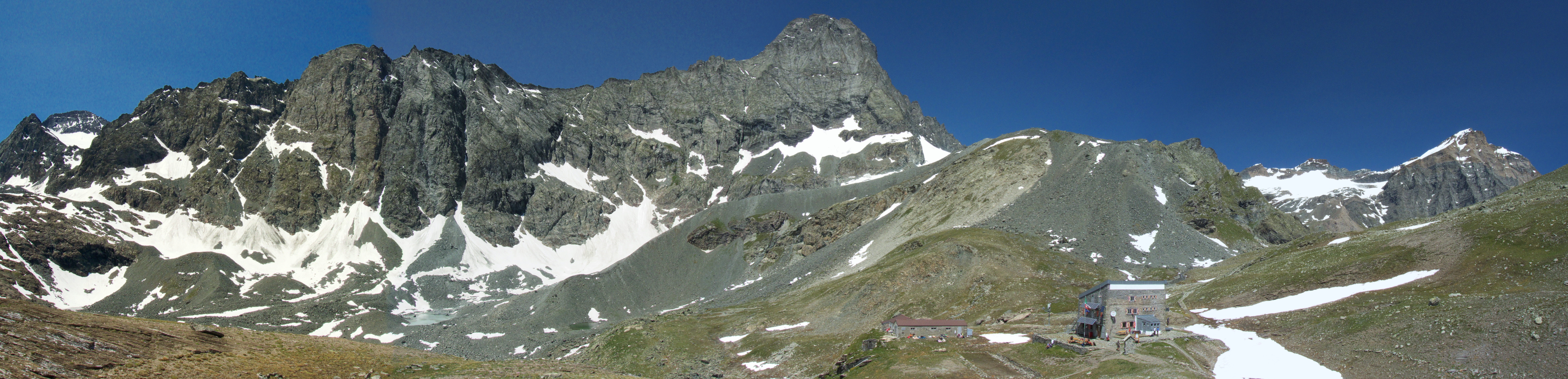 On the far right the Uja di Ciamarella, at the centre the Uja Bessanese. The Rifugio Gastaldi can also be seen.